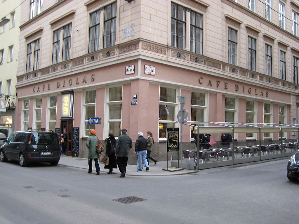 Cafe Diglas in Vienna, front